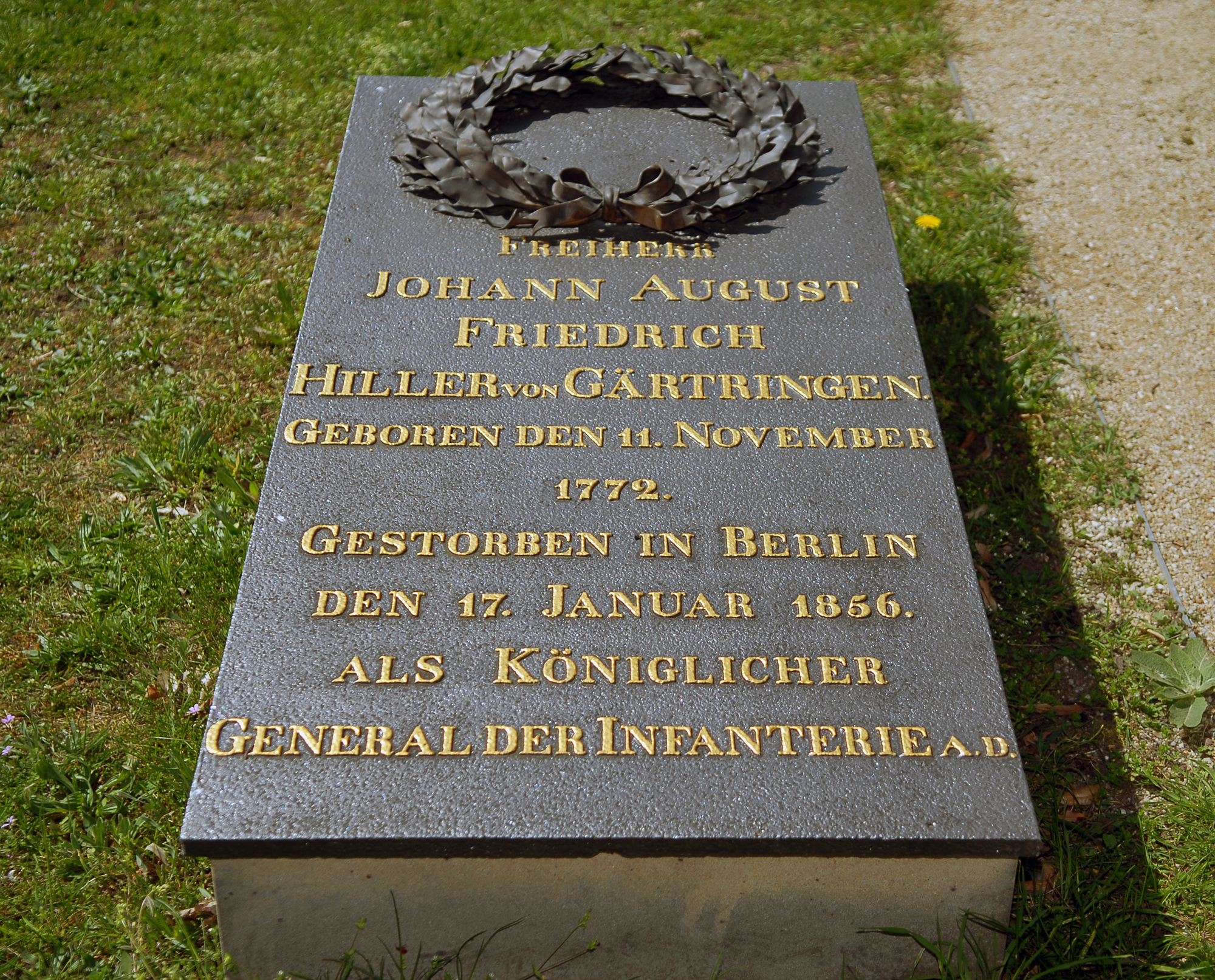 This image shows the grave of August Hiller von Gaertringen at the invalid cemetery in Berlin.